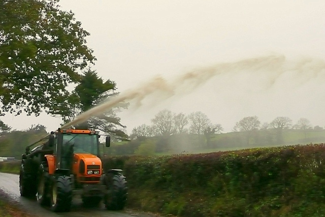 Slurry spreading, Welsh style Just drive slowly down the lane and pump it over the hedge. Well, I had to pull into a gateway to let him past anyway.